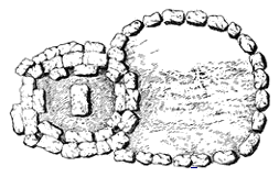 A Cromlech, as seen from above. From Benziger, "Hebräische Archäologie", as reproduced in the 1905-1906 Jewish Encyclopedia